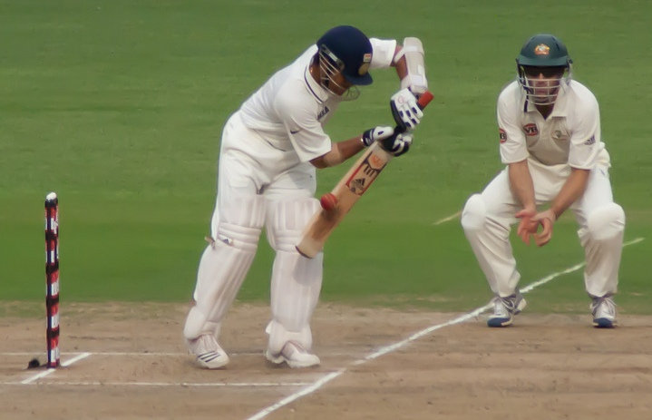 Sachin Tendulkar glides the ball down to third man as the wicketkeeper and a fielder look on, Day 2 of the Second Test of the Border Gavaskar Trophy 2010 - 11.